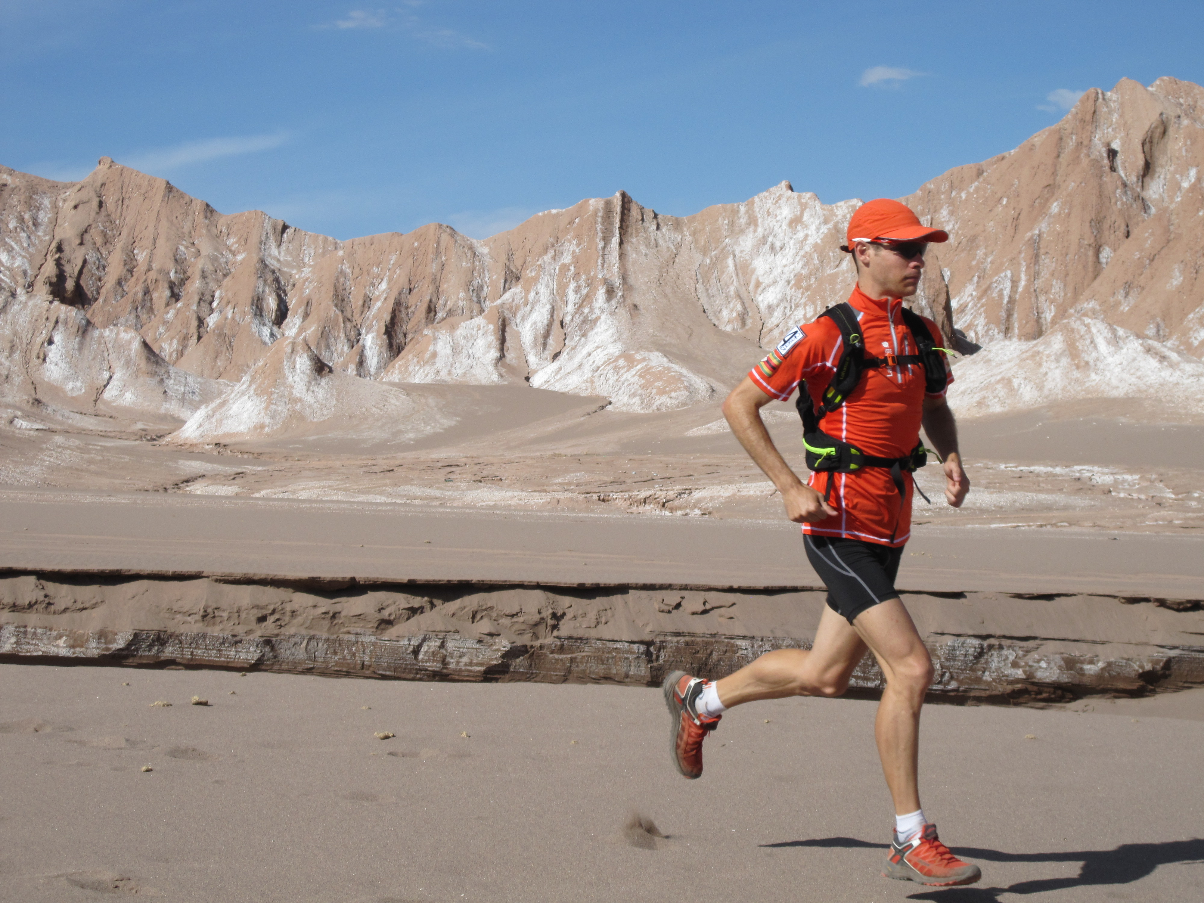 Image of Daniel Rowland training in the Atacama Desert before the Atacama Crossing 2013